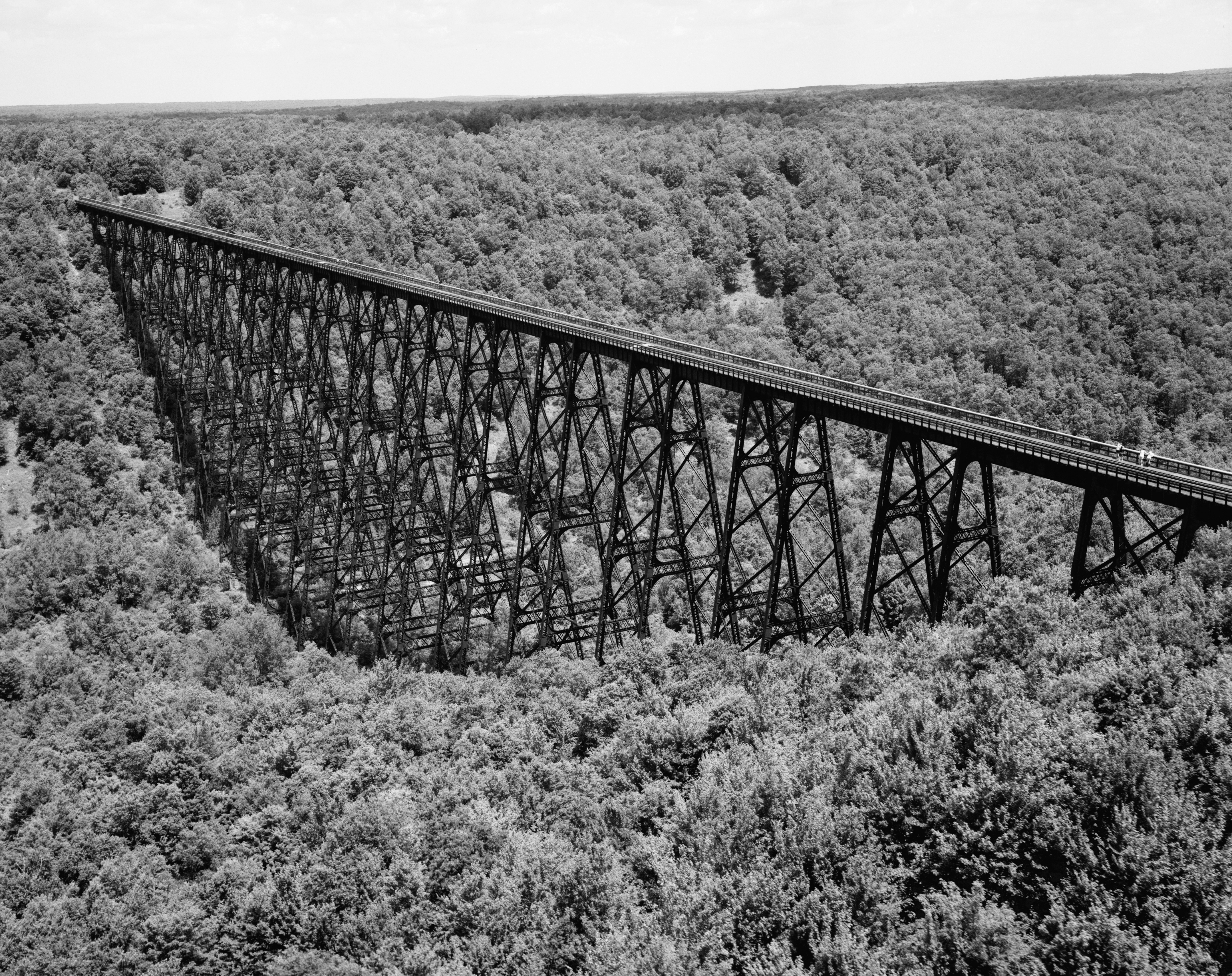 Aerial reconnaissance, IL, Erie Railway Survey. - Erie Railway, Bradford Division, Bridge 27.66, Spanning Kinzua Creek Valley, 1.5 Miles Northeast of Kushequa, Mount Jewett, McKean County, Pennsylvania. (